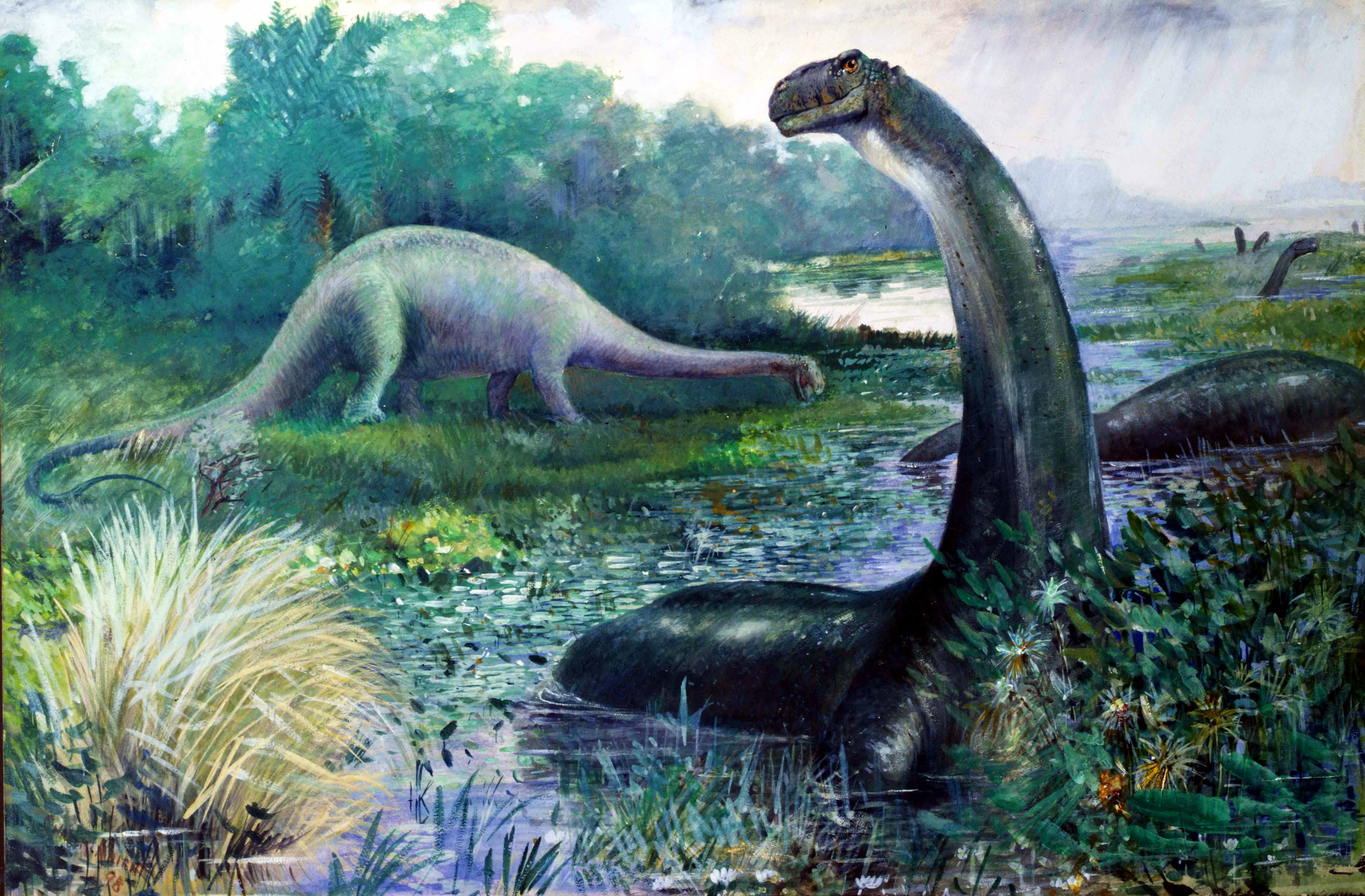 Illustration of Brontosaurus in the water, and Diplodocus on land.